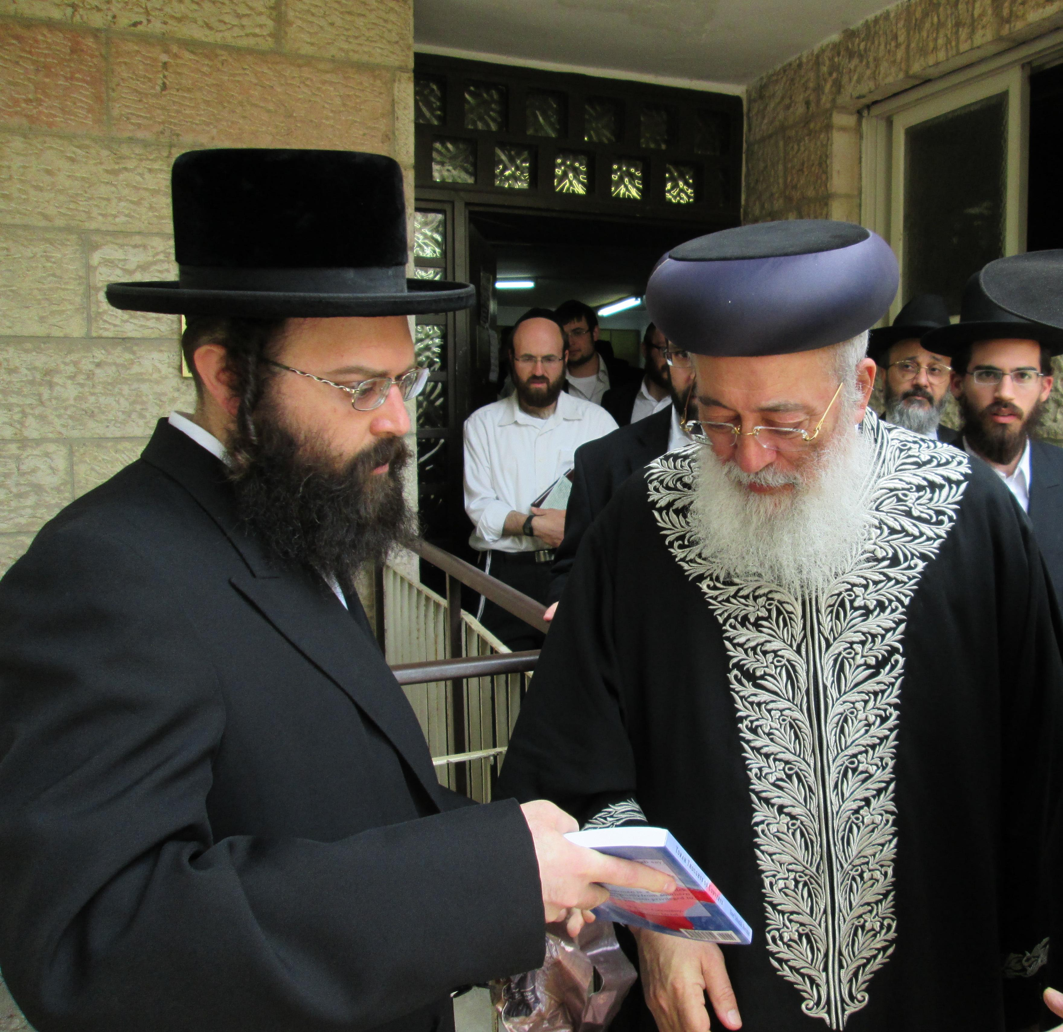 Rabbi Shlomo Moshe Amar with Jewish Scholar Yosef Yehudah Joseph JSherman at Ohr Somayach, Jerusalem. Rabbi Amar was The Sephardi Chief Rabbi of Israel and the Rishon LeZion from 2003–2013.